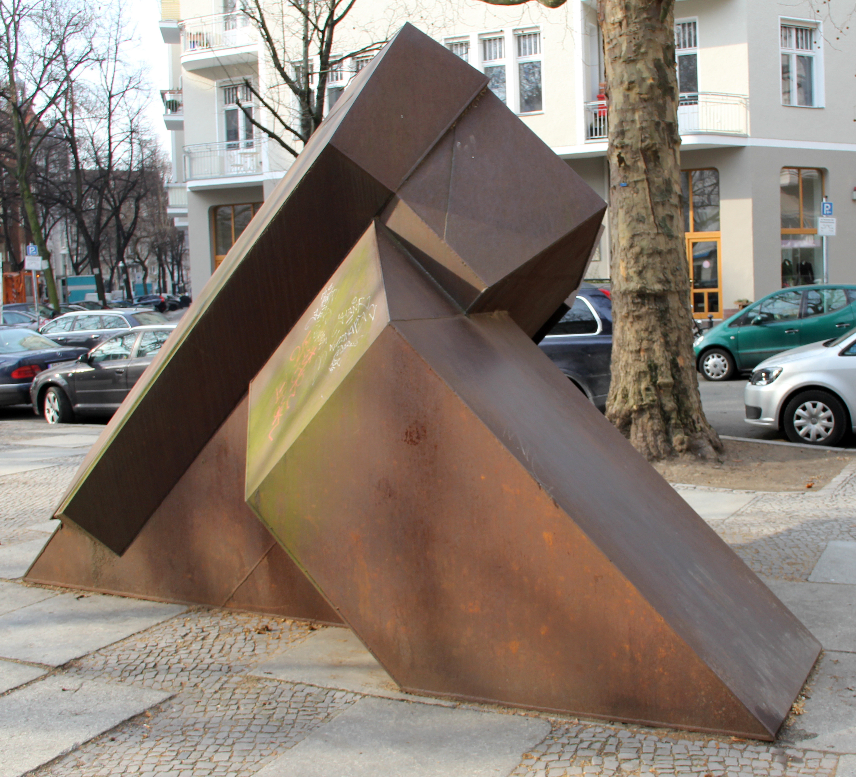 Sculpture, "Die Rückkehr des Ikarus" von Georg Seibert, Meyerinckplatz, Berlin-Charlottenburg, Germany